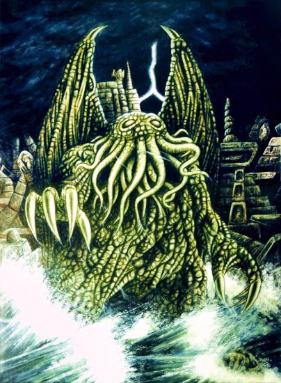 An artist's visual representation of the Elder God Cthulu.